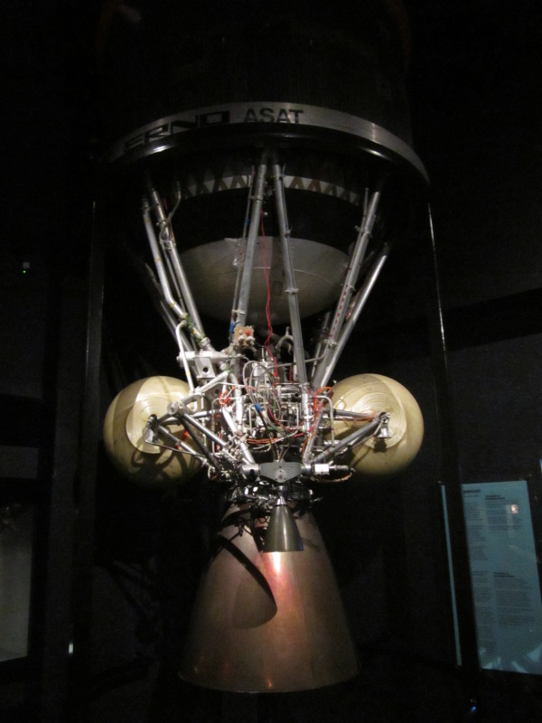 Astris rocket, World Museum Liverpool, England. German third stage rocket for the Europe 2 satellite launcher.